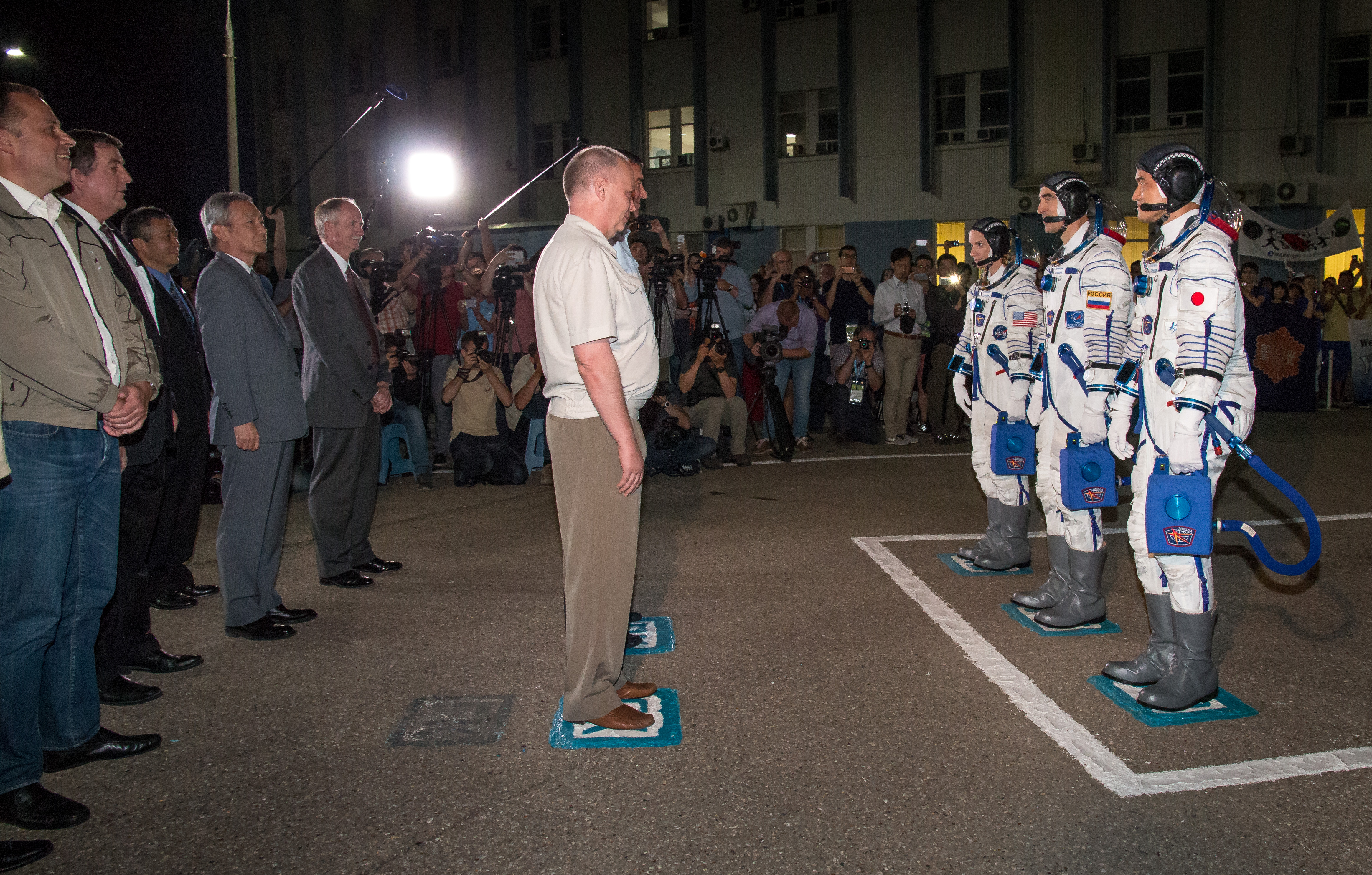 NASA astronaut Kate Rubins, left, Russian cosmonaut Anatoly Ivanishin of Roscosmos, center, and Japanese astronaut Takuya Onishi of the Japan Aerospace Exploration Agency (JAXA) report to officials before departing for the launch pad and launching onboard the Soyuz MS-01 spacecraft Thursday, July 7, 2016 at the Baikonur Cosmodrome in Kazakhstan. Rubins, Ivanishin, and Onishi launched from the Baikonur Cosmodrome in Kazakhstan the morning of July 7, Kazakh time (July 6 Eastern time.) All three will spend approximately four months on the orbital complex, returning to Earth in October.